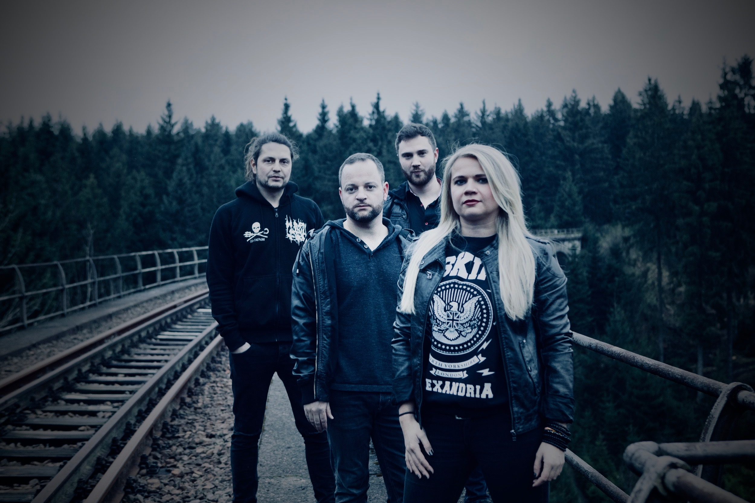 Revolving Door 2020 bridge